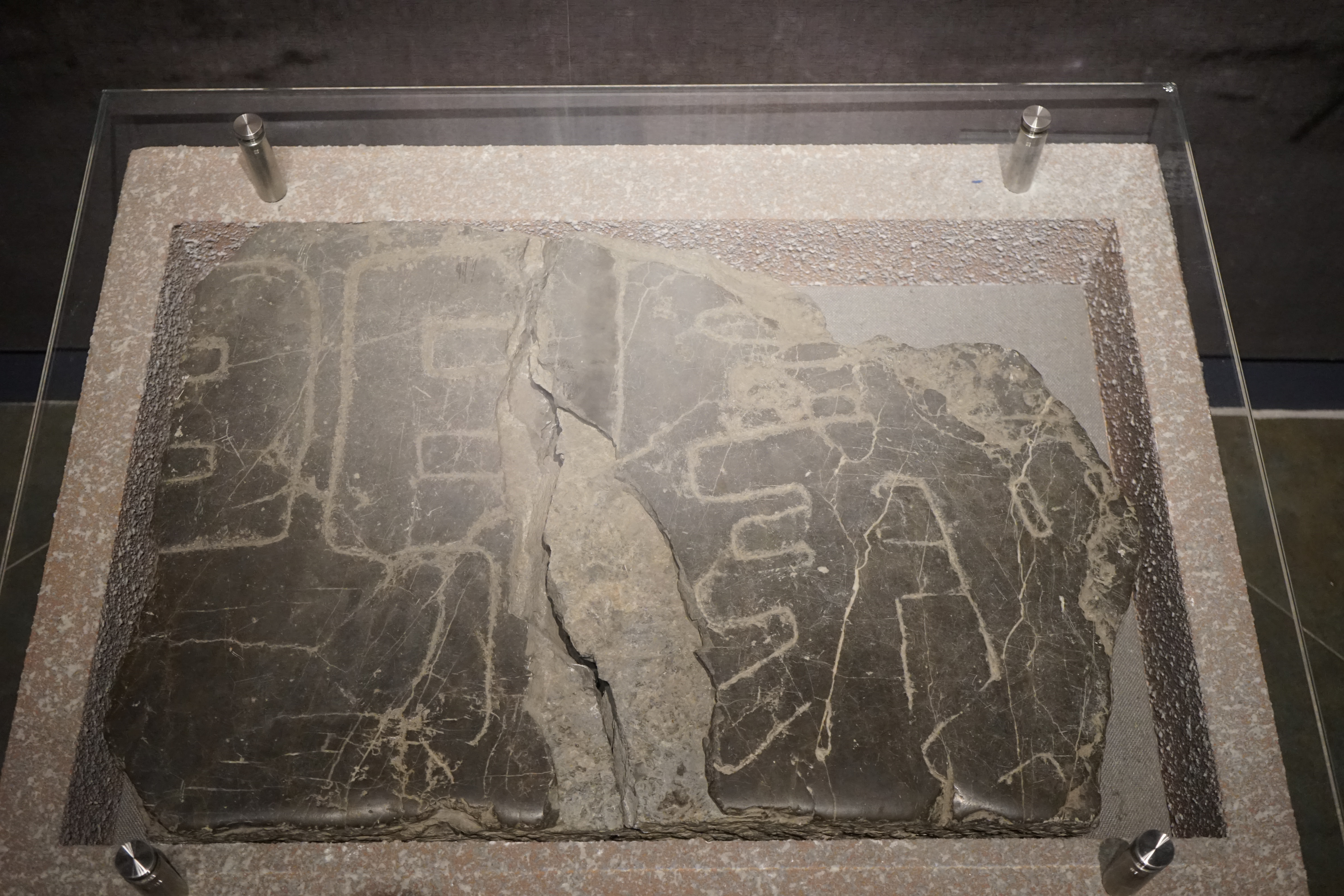 Uprising Gate, originally called Zhonghe Gate, is one of the cncient city gates of Wuchang. This is the stone header (parts missing) which was embbeded on the top of the tower of Uprising Gate.